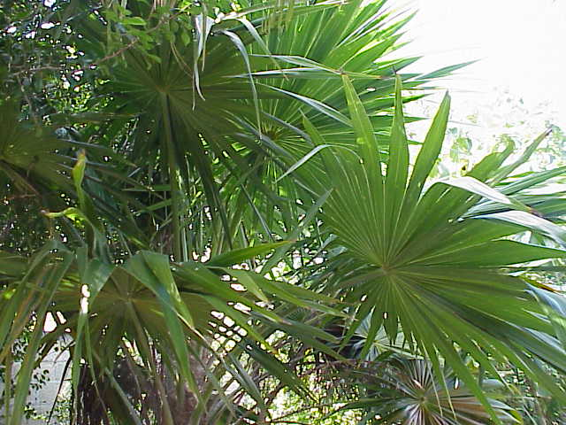 Species: Thrinax radiata Family: Palmae Image No. 1